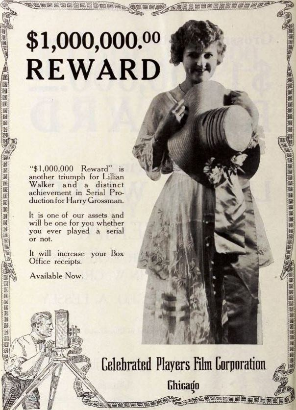 Advertisement for the American drama film serial The $1,000,000 Reward (1920) with Lillian Walker, on page 74 of the January 3, 1920 Exhibitors Herald.